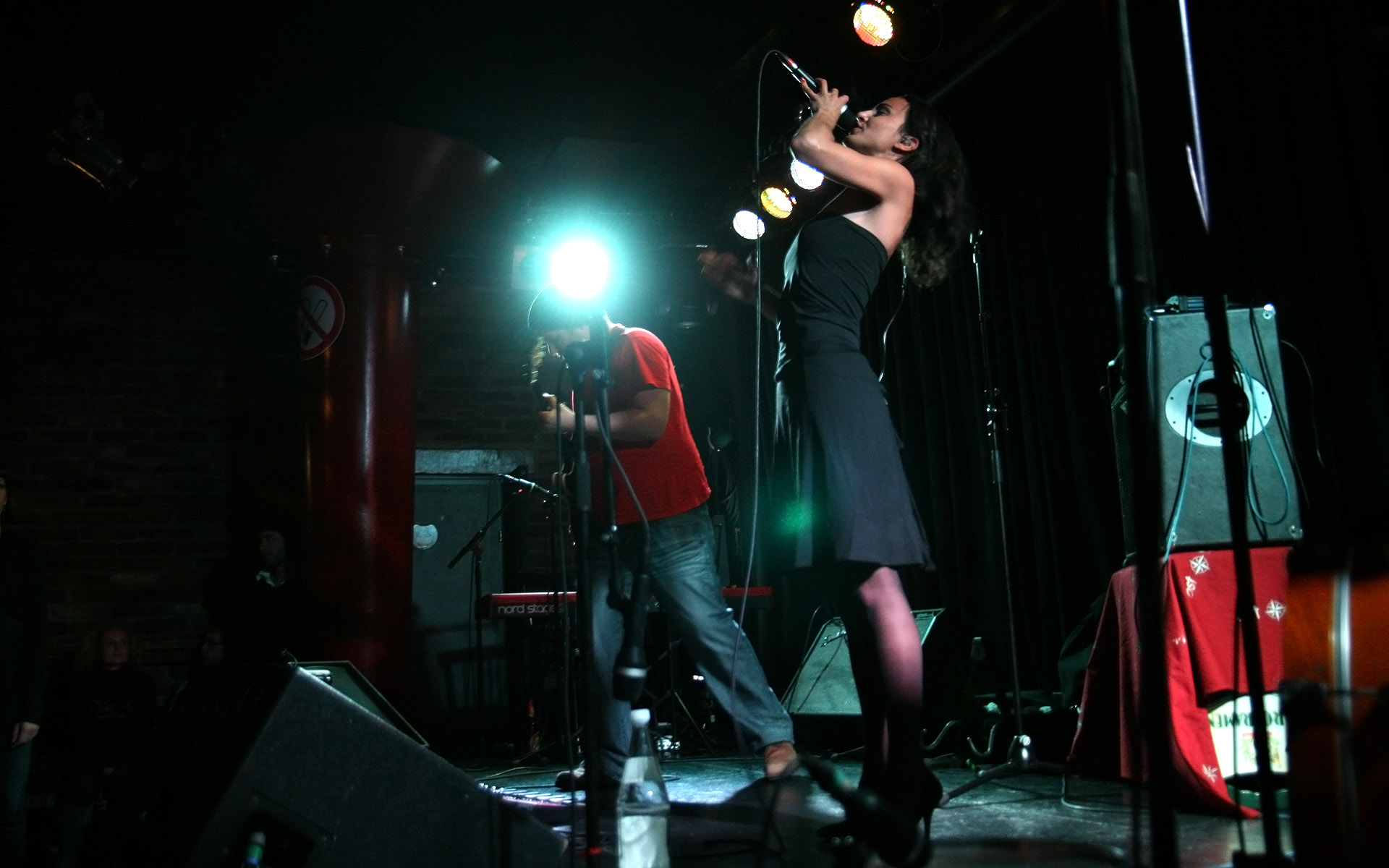 Tania Saedi, charity concert for Bock auf Kultur at ost klub in Vienna, Austria.